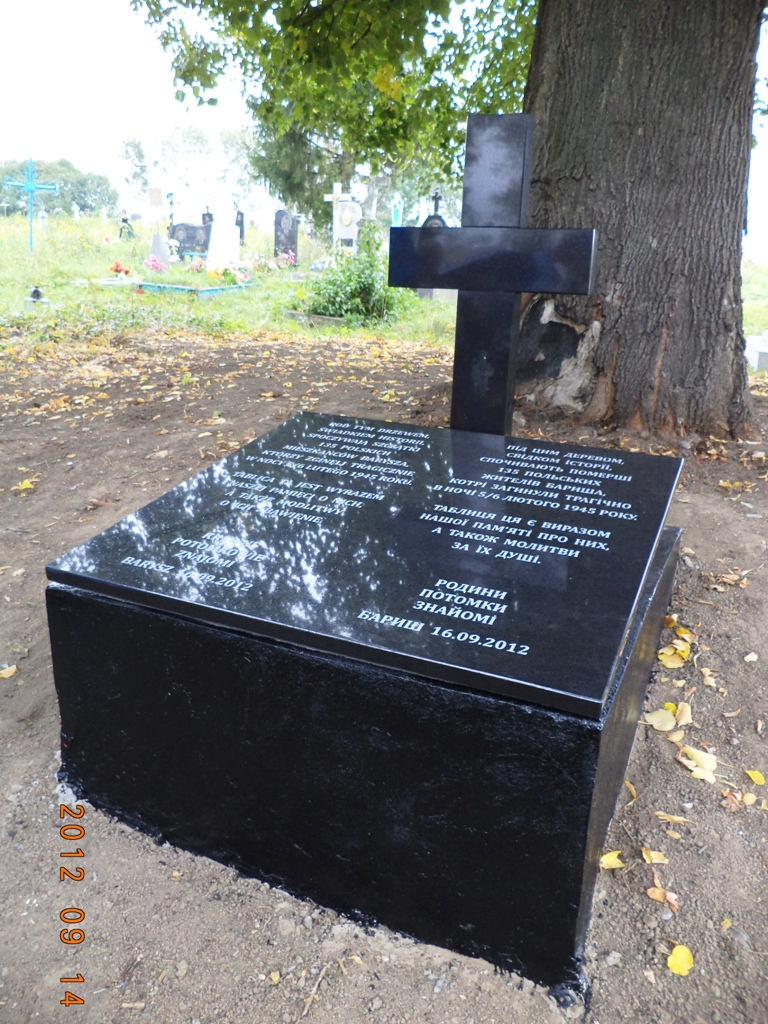 Monument on the mass grave of 135 Poles killed in Barysz massacre